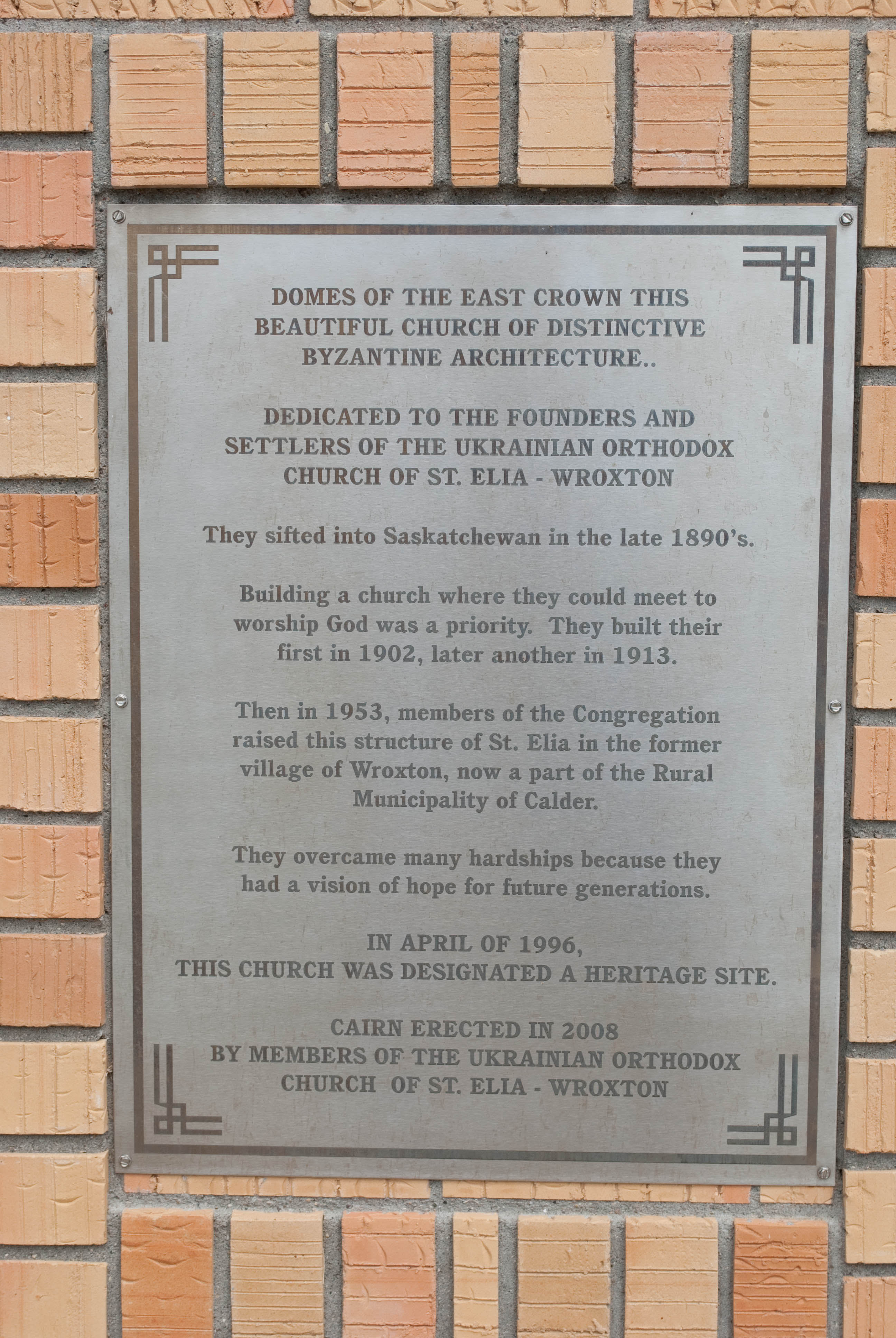 Ukrainian Greek Orthodox Church of St. Elia